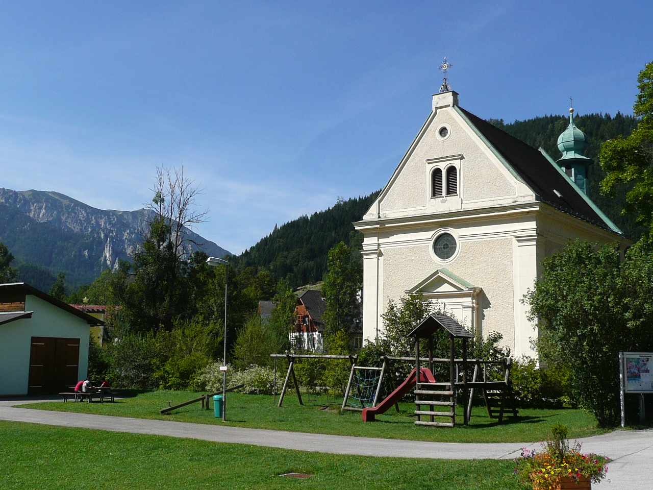 Mürzsteg Church, Mürz valley, Styria